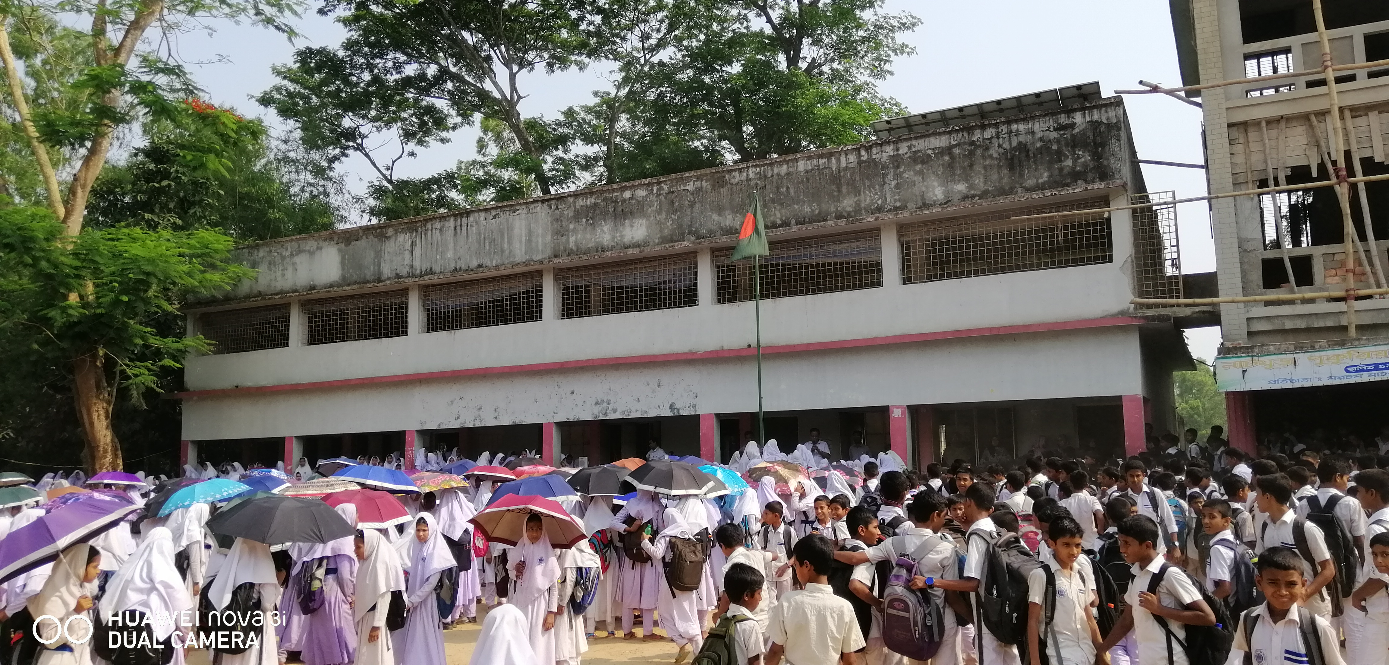 It is an old building was built in 1992.